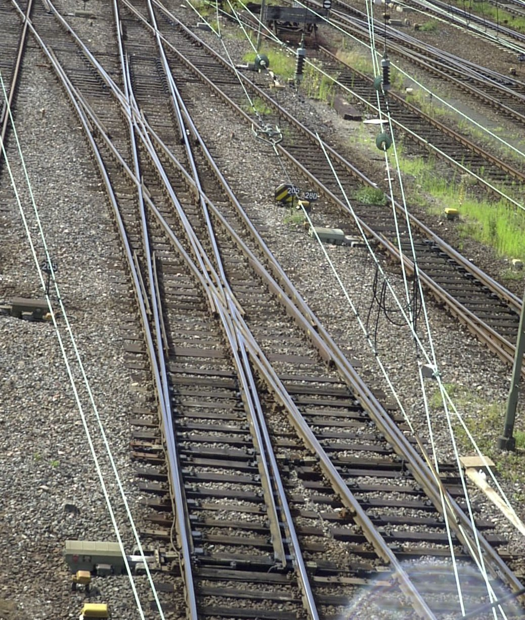 Double switch of type "Baeseler" in the West of Heidelberg main station